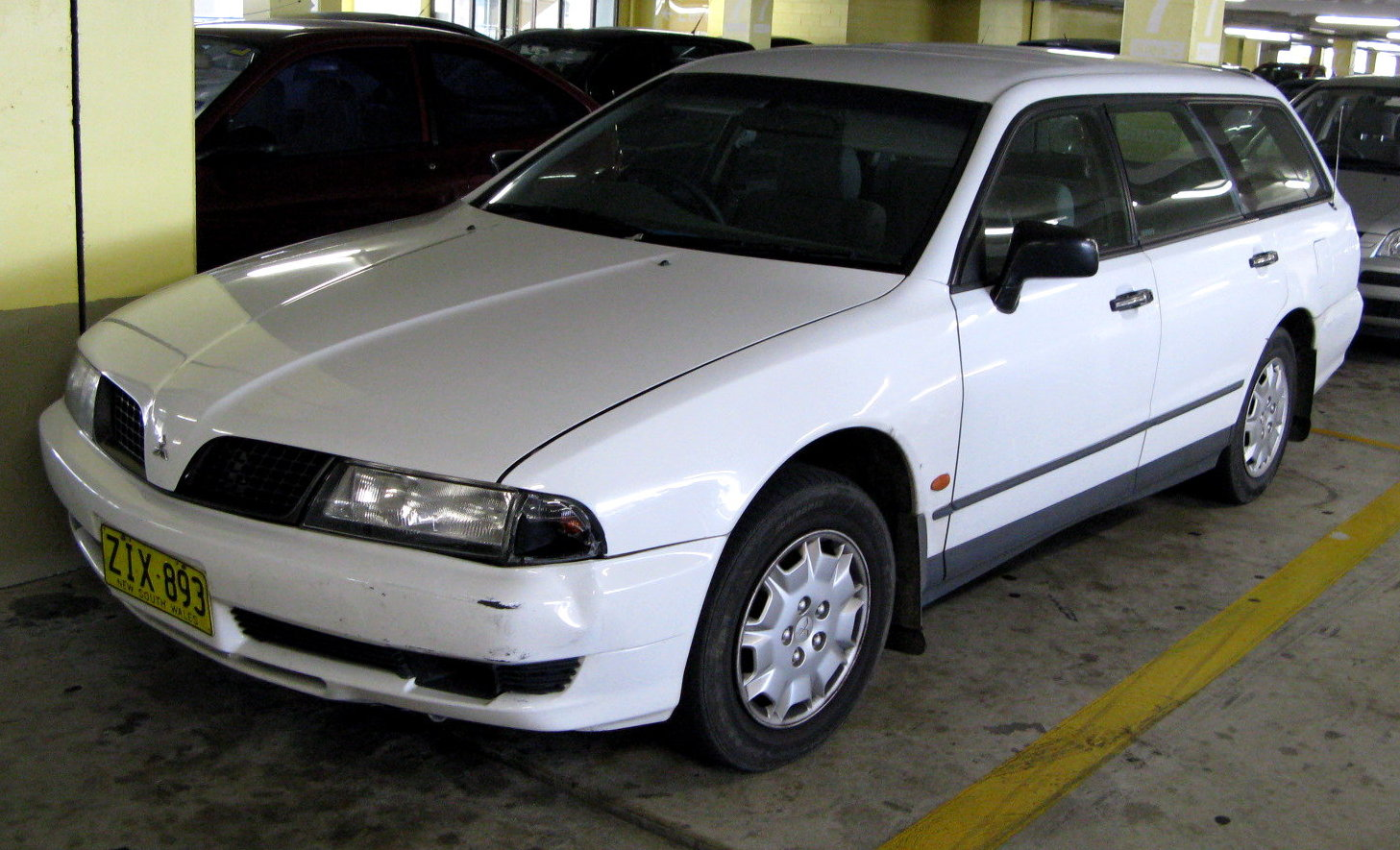 2000 Mitsubishi Magna (TJ) Executive station wagon. Photographed in Parramatta, New South Wales, Australia.